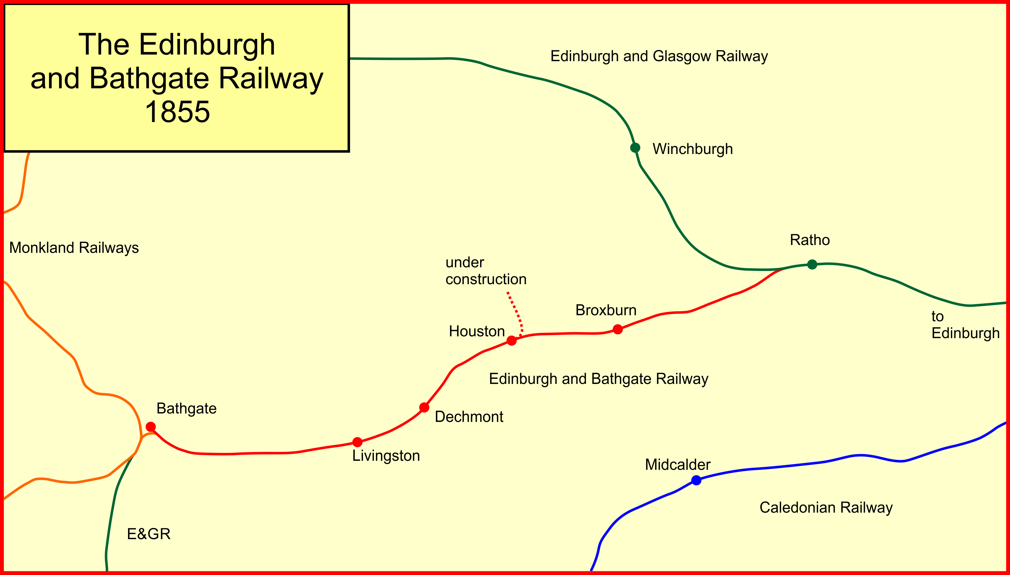 System map of the Edinburgh and Bathgate Railway, Scotland, in 1855